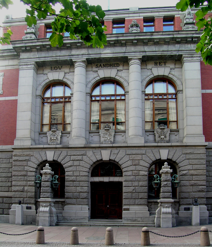 Norway's Supreme Court, Oslo. Erected 1896-1903. Architect: Hans Sparre.